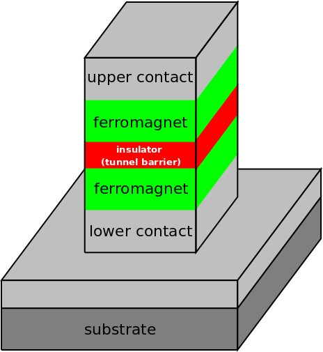 Schematic view of a magnetic tunnel junction.